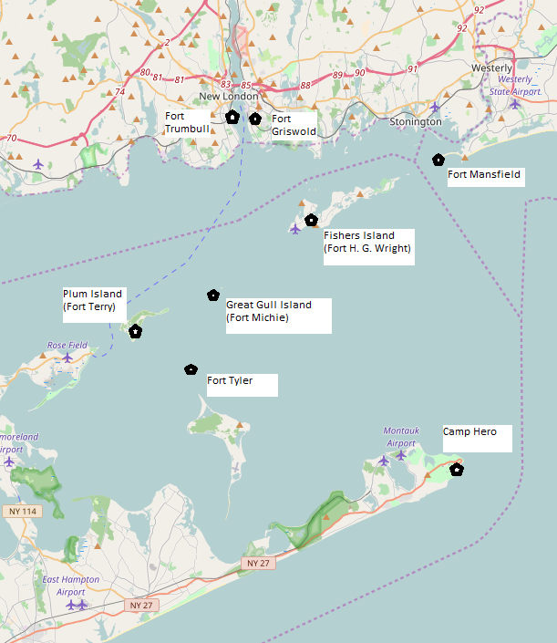 Map of eastern Long Island and part of Connecticut with historic forts annotated.